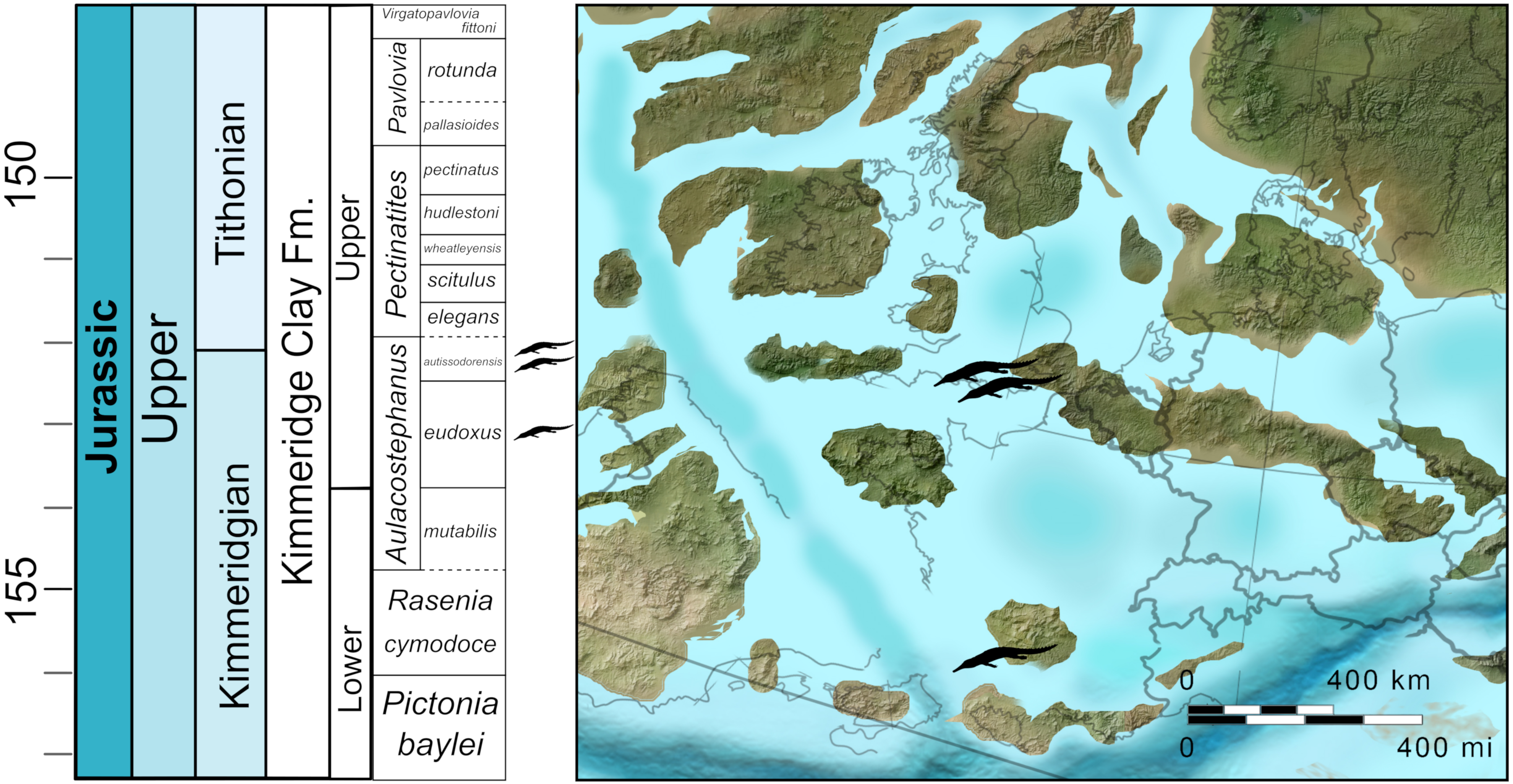 Stratigraphic and palaeogeographic distribution of Late Jurassic (Kimmeridgian—early Tithonian) Bathysuchus megarhinus. Map modified from Ron Blakey ©(